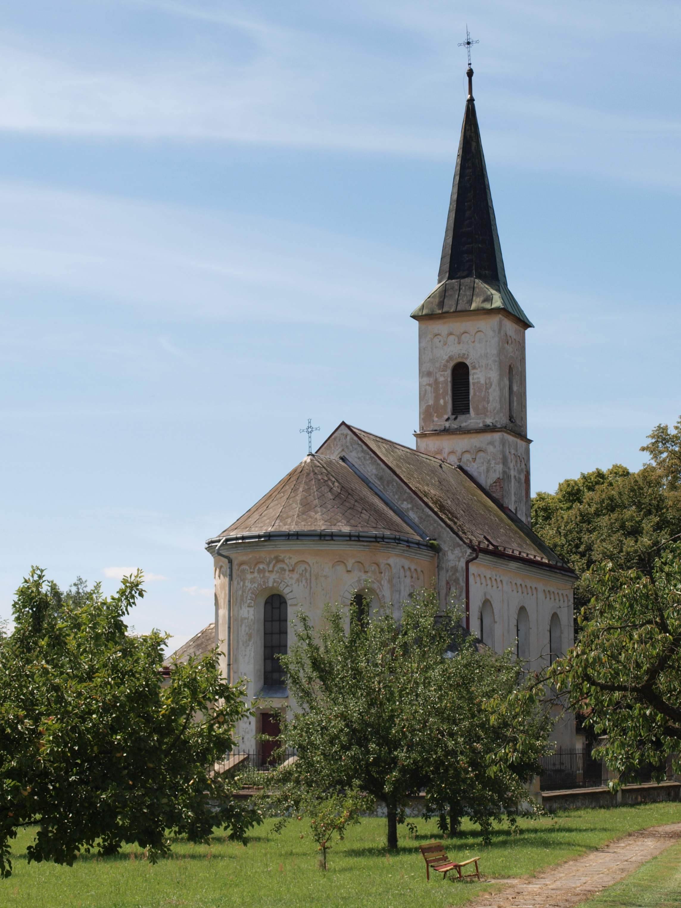 Church, Budiměřice, Nymburk District, Central Bohemian Region